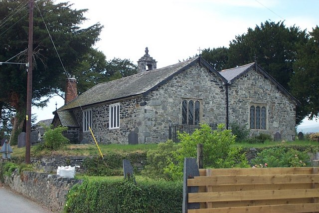 Llanddoged Church. St Doged Church in Llandoged at SH 80611 63689 looking towards the Northwest